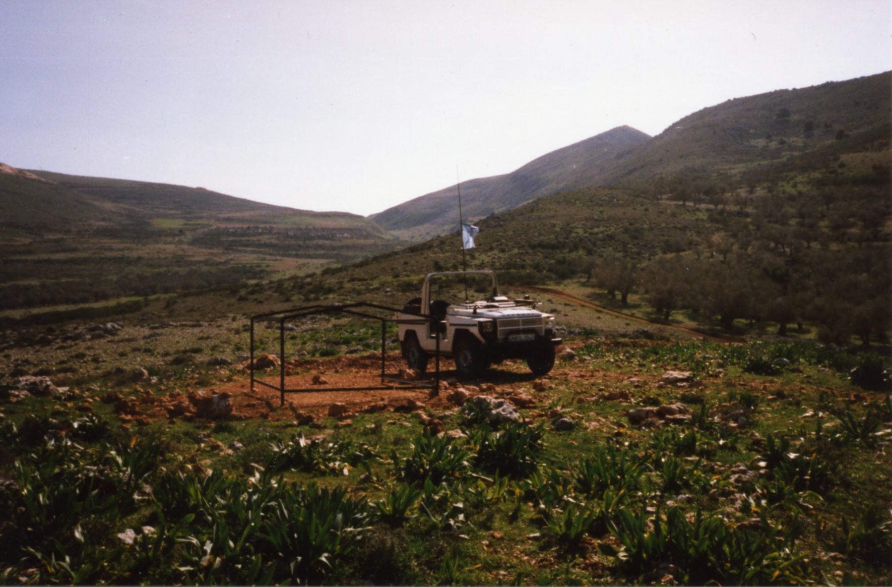 A Peugeot P4 at the 4-19 position in then NORBATT, now INDBATT.